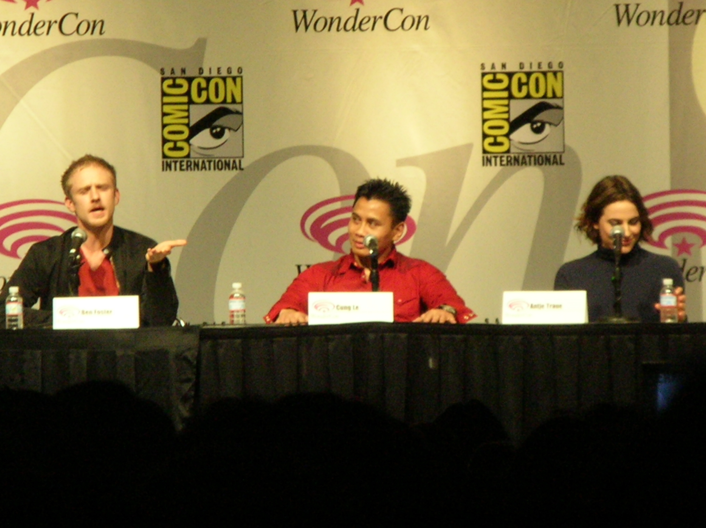 From left to right: Ben Foster, Cung Le, and Antje Traue talk about Pandorum at a panel discussion at WonderCon 2009.